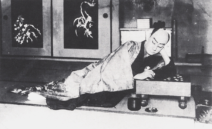 Ganjirō Nakamura I (1860–1935) as Ōboshi Yuranosuke in Goban Taiheiki